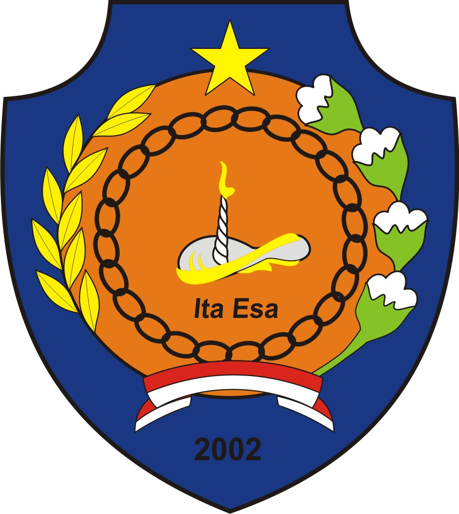 Coat of Arms (Lambang) of Regency (Kabupaten) Rote Ndao, Provinsi Nusa Tenggara Timur (East Lesser Sunda Islands Province), Indonesia